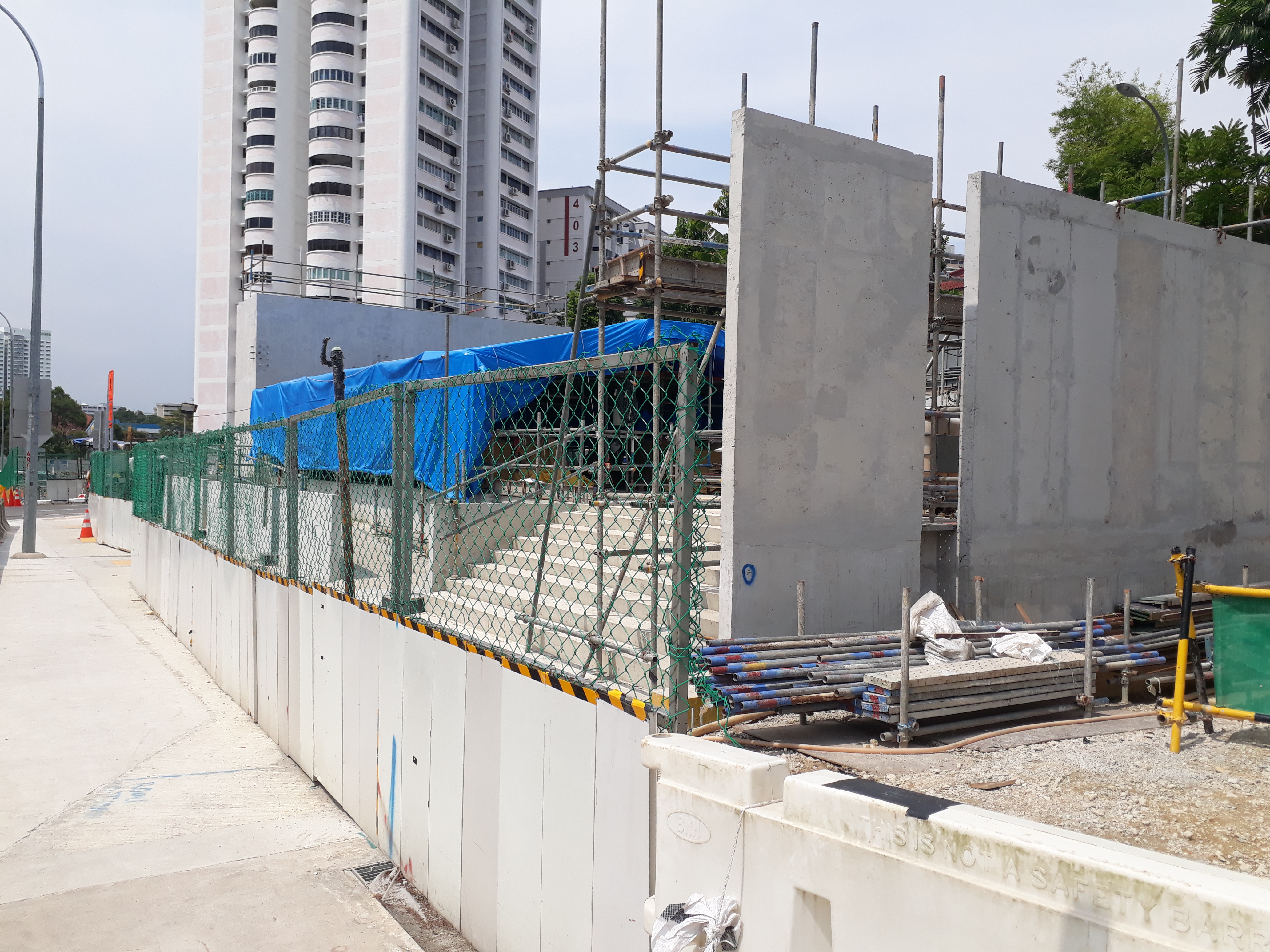 Bright Hill Entrance Under Construction